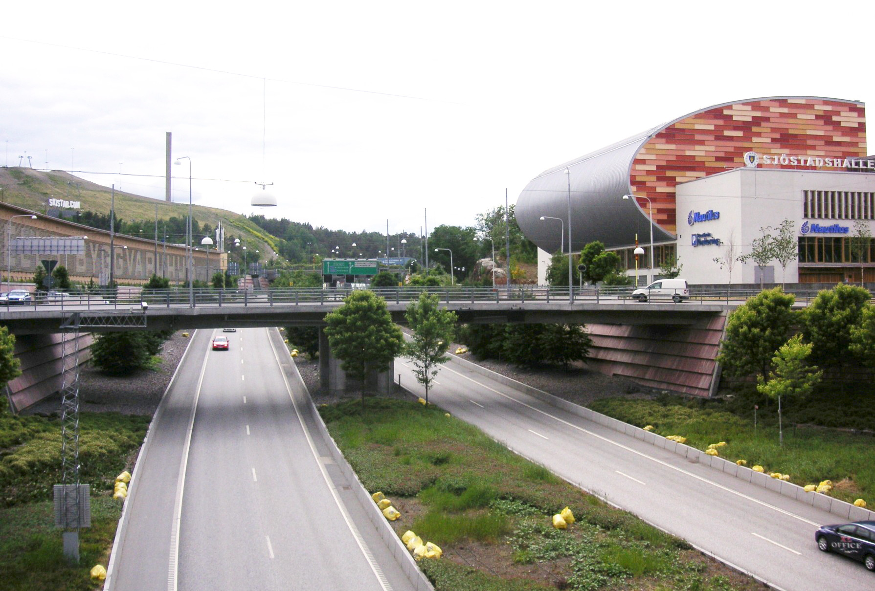 Södra länken in Stockholm